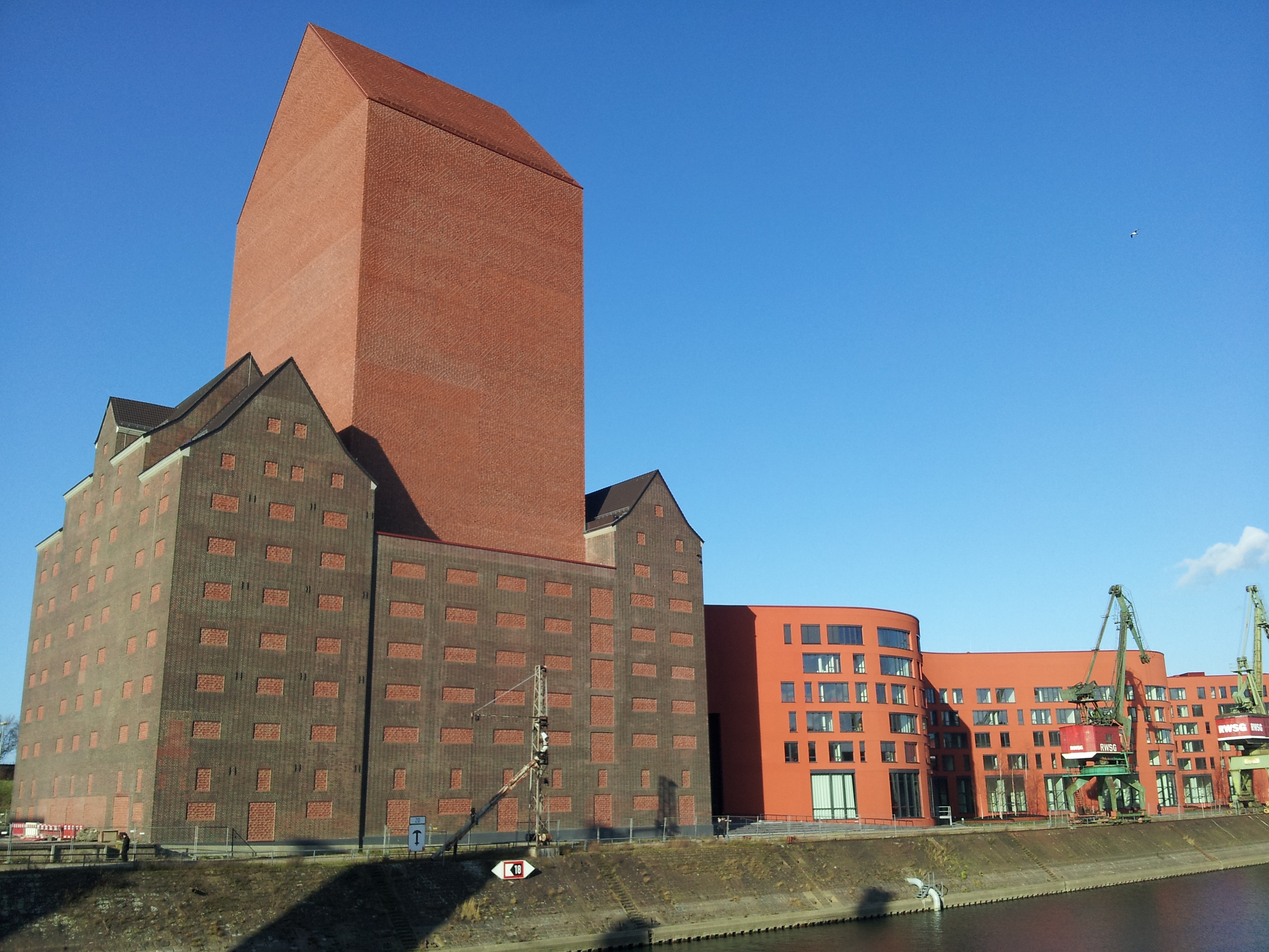 Administration and archives building of the State Archives of North Rhine-Westphalia in Duisburg, Germany